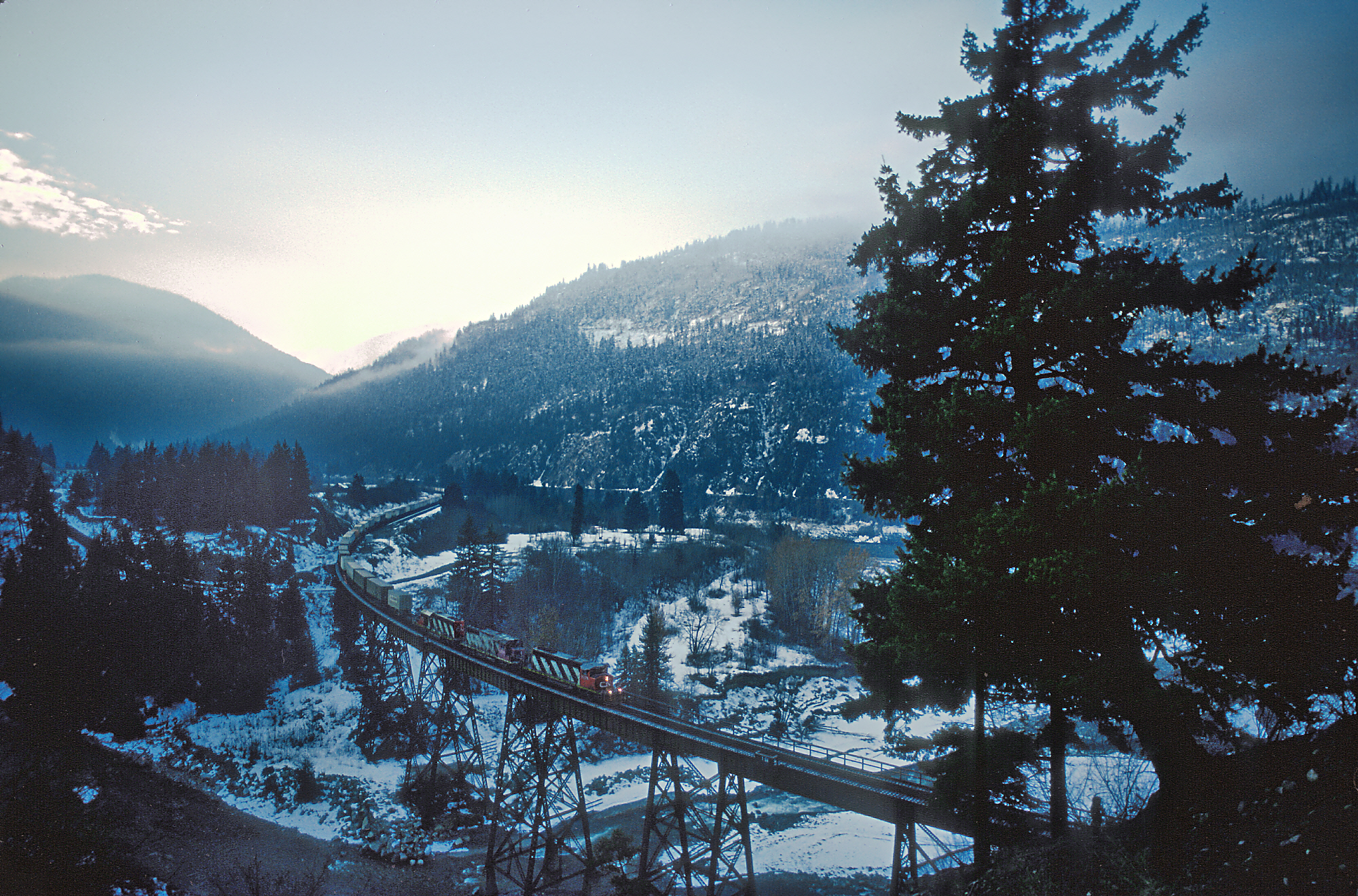 Roger Puta photographs from the Fraser and Thompson River Canyons in British Columbia.